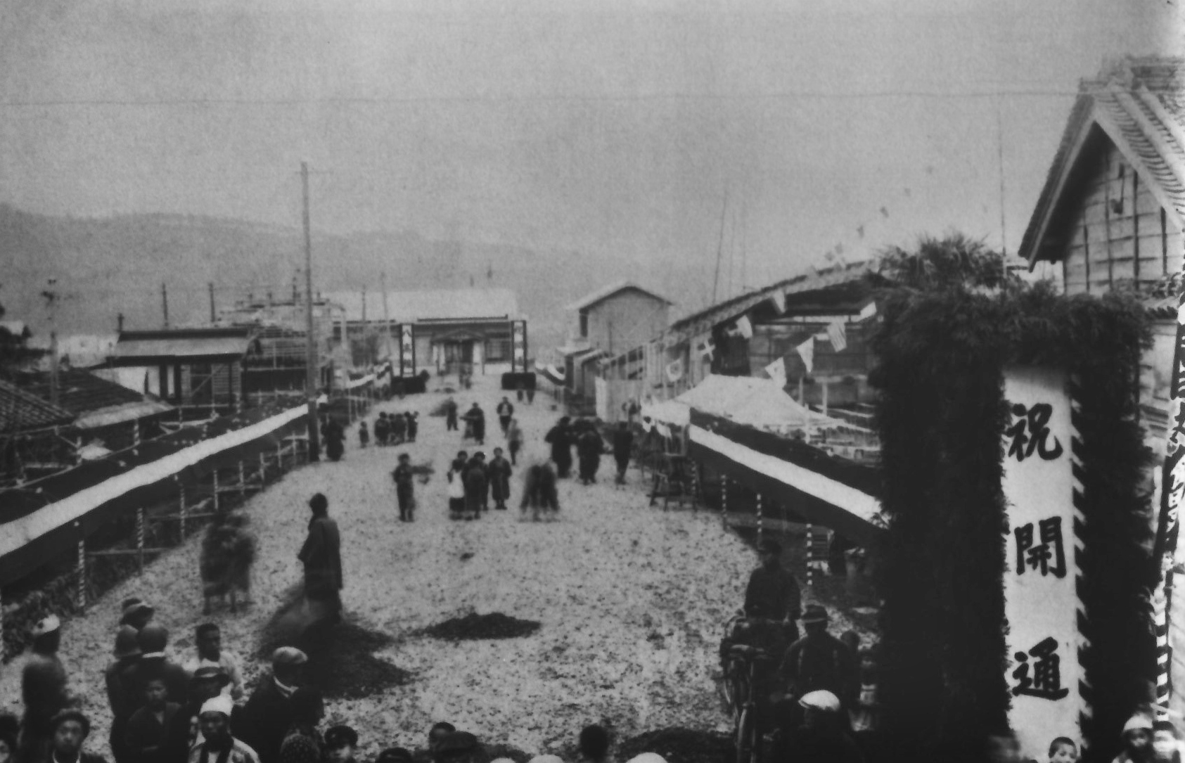 Ogose Station in Saitama Prefecture on the day of its opening